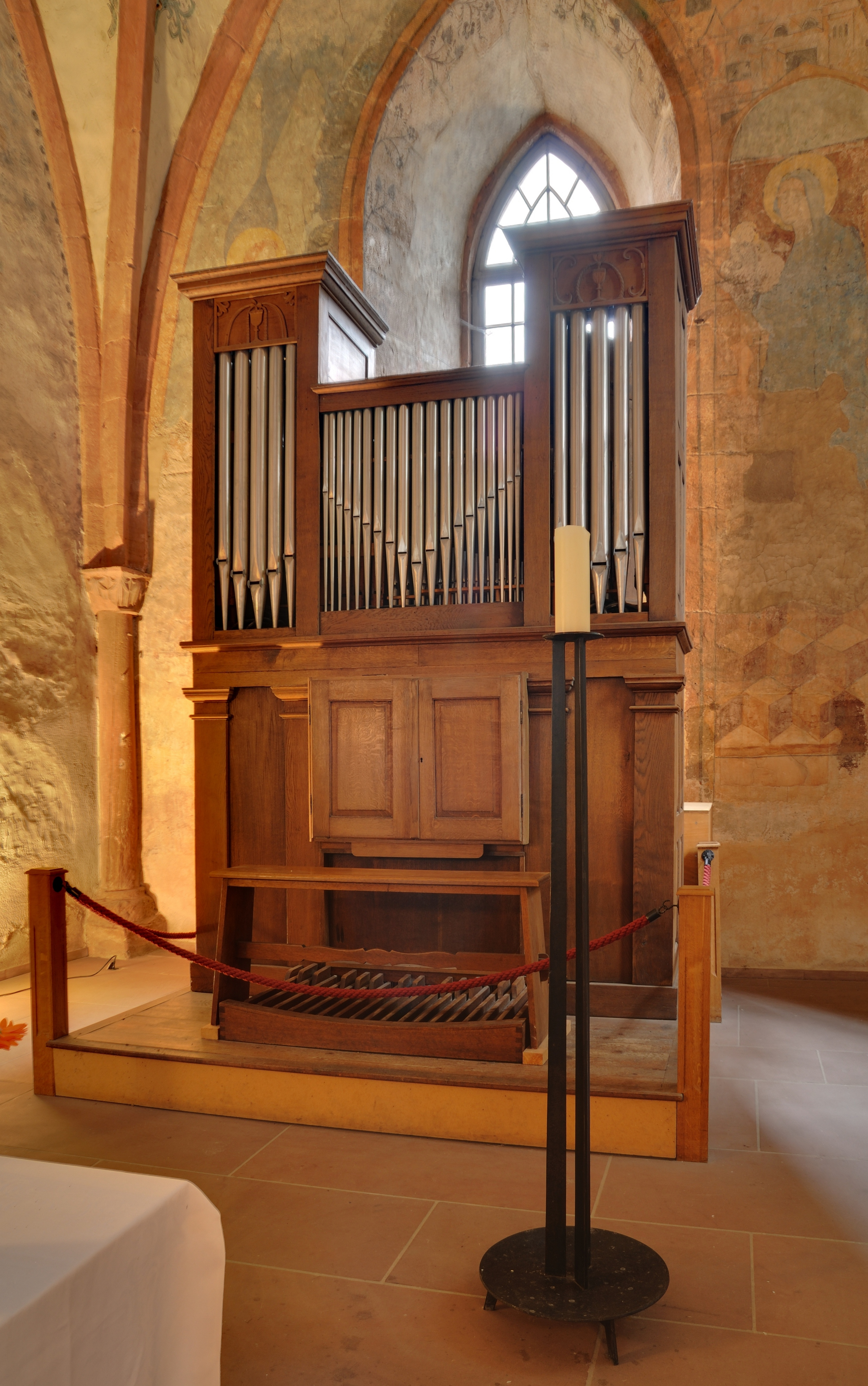 Schopfheim: Old City Church, pipe organ in choir